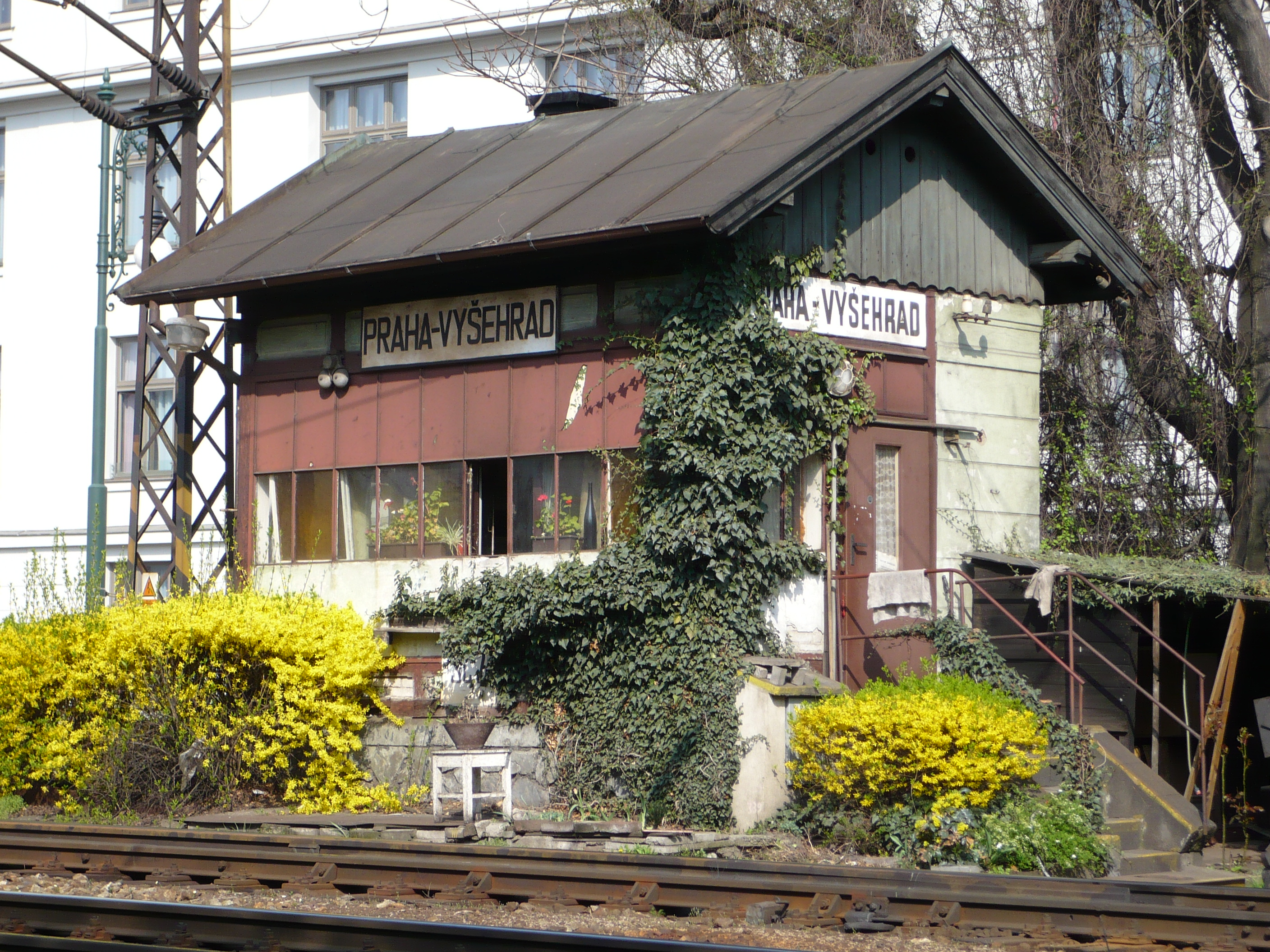 Praha-Vyšehrad, Signal Box 2